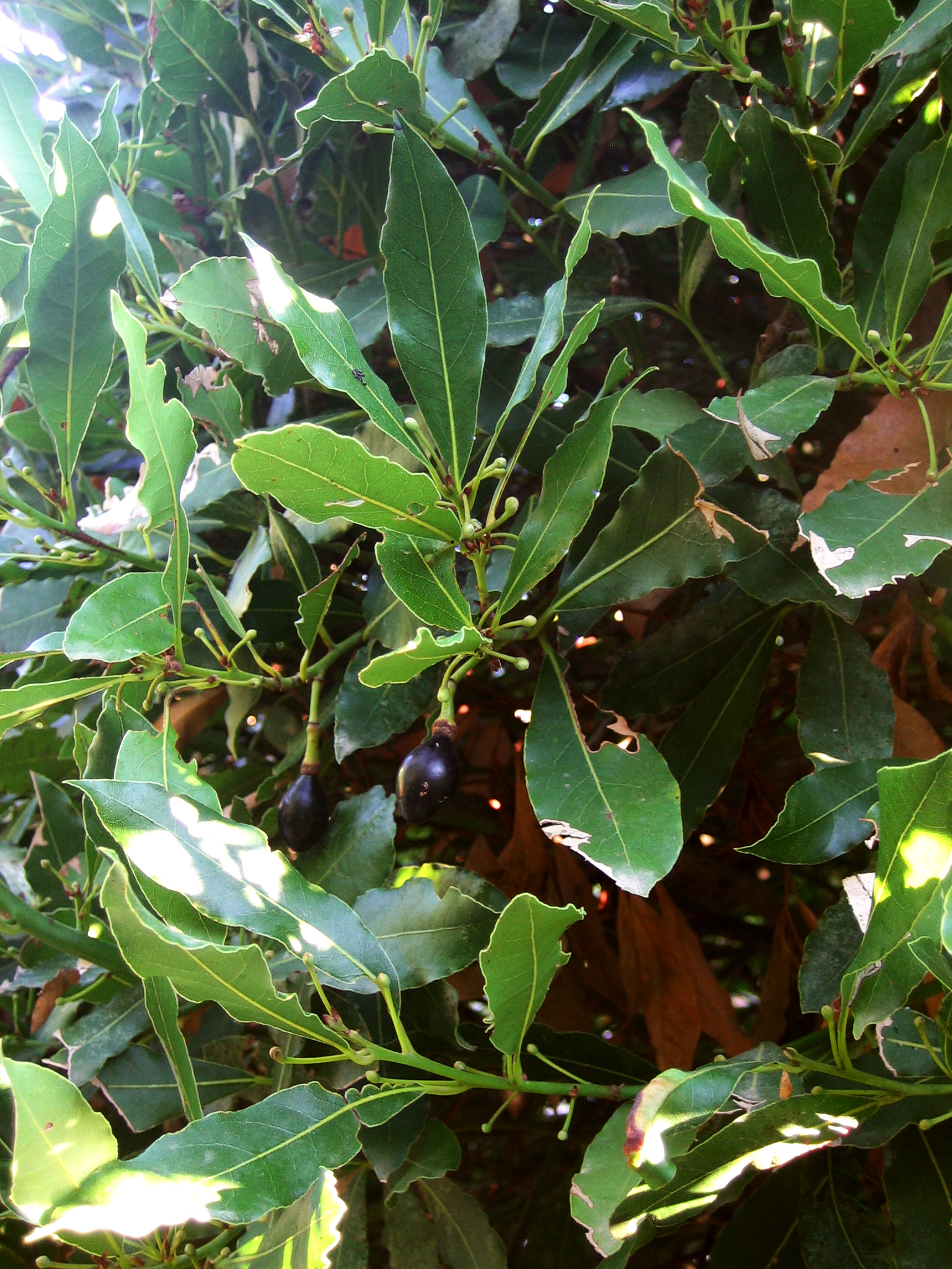 Bay laurel - leaves, flower buds and fruits